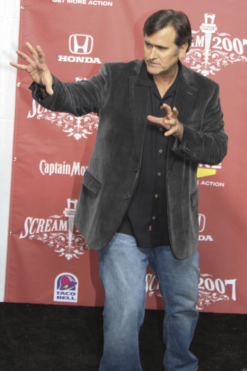 American Actor Bruce Campbell at the 2007 Scream Awards.